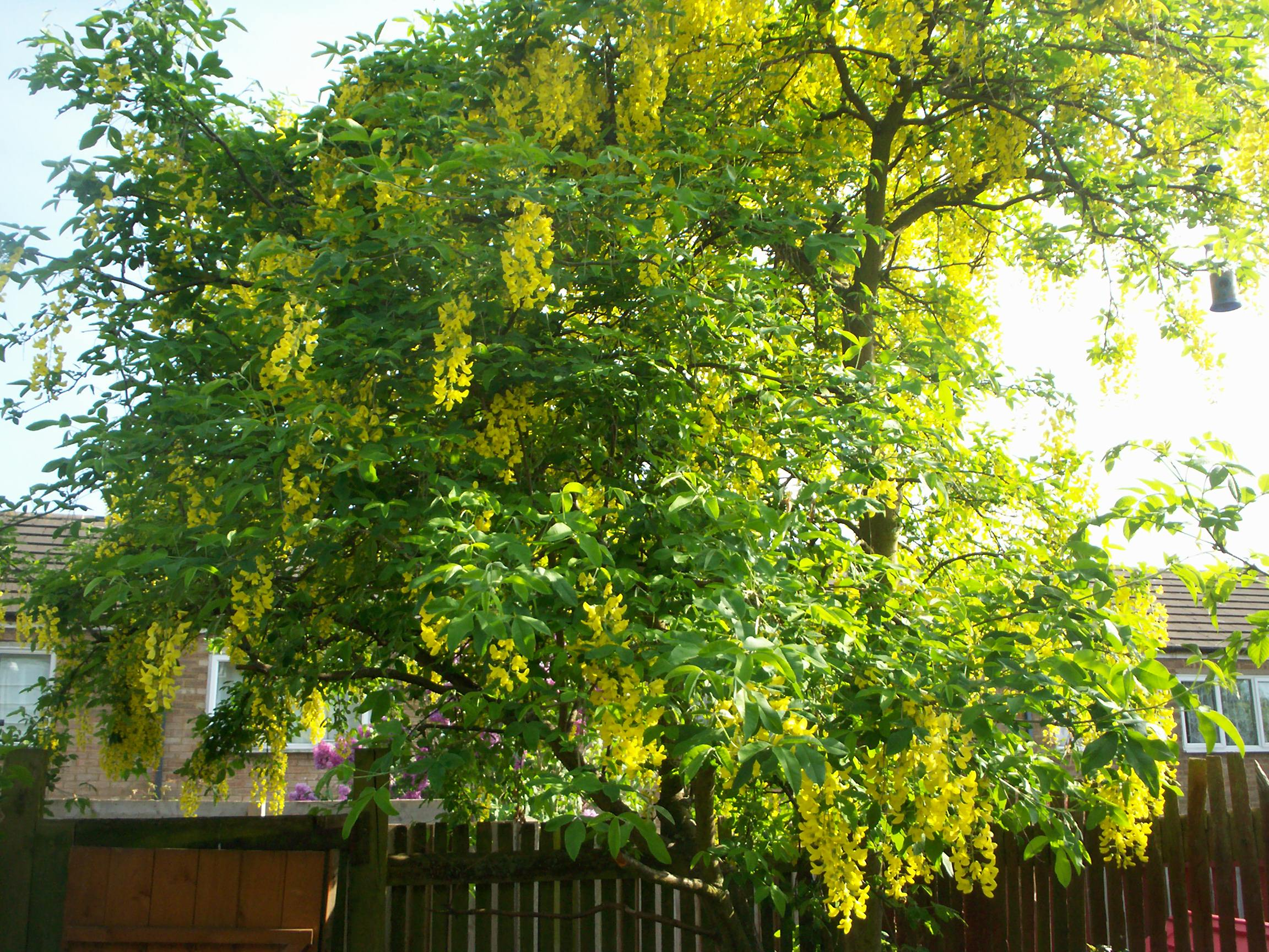 At the bottom of the garden.